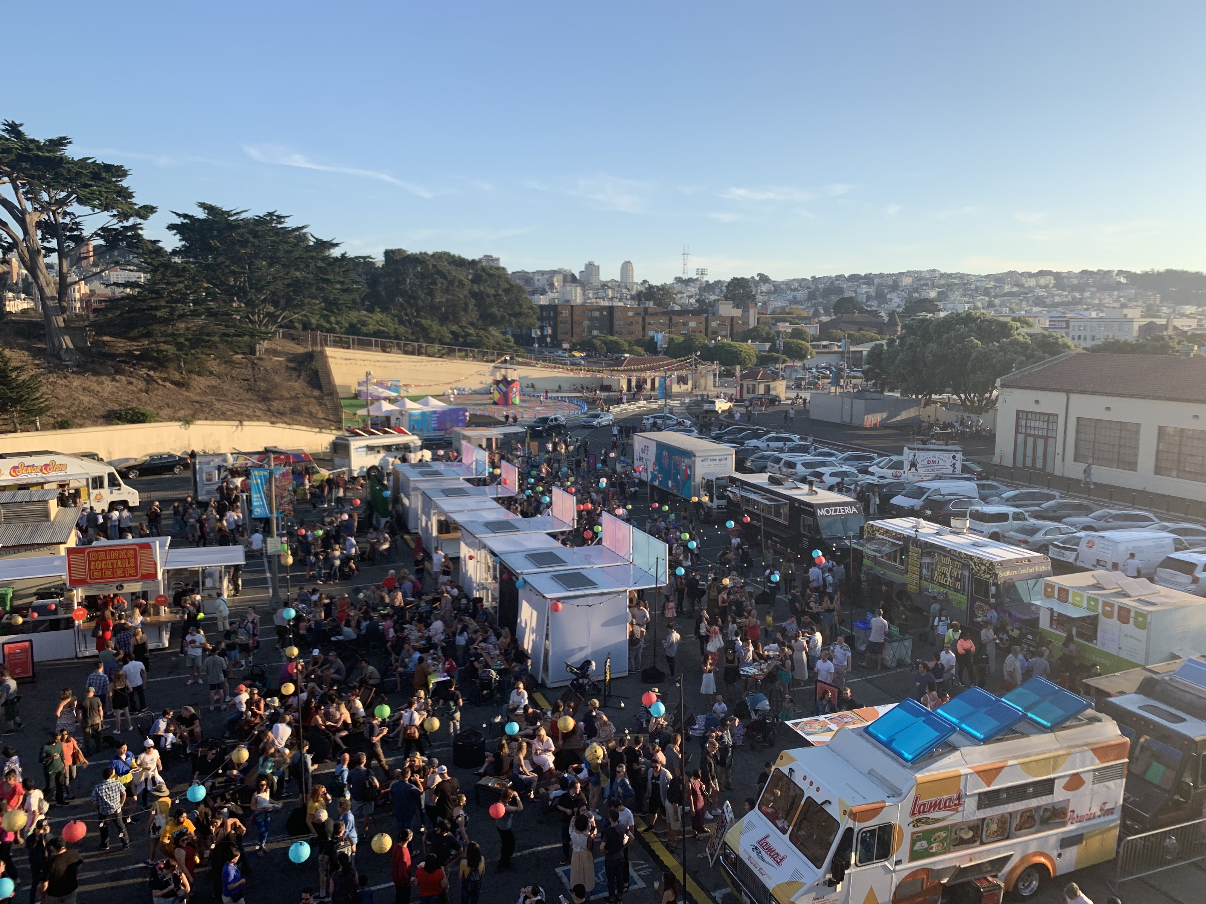 Off the Grid: Fort Mason Center in 2019.